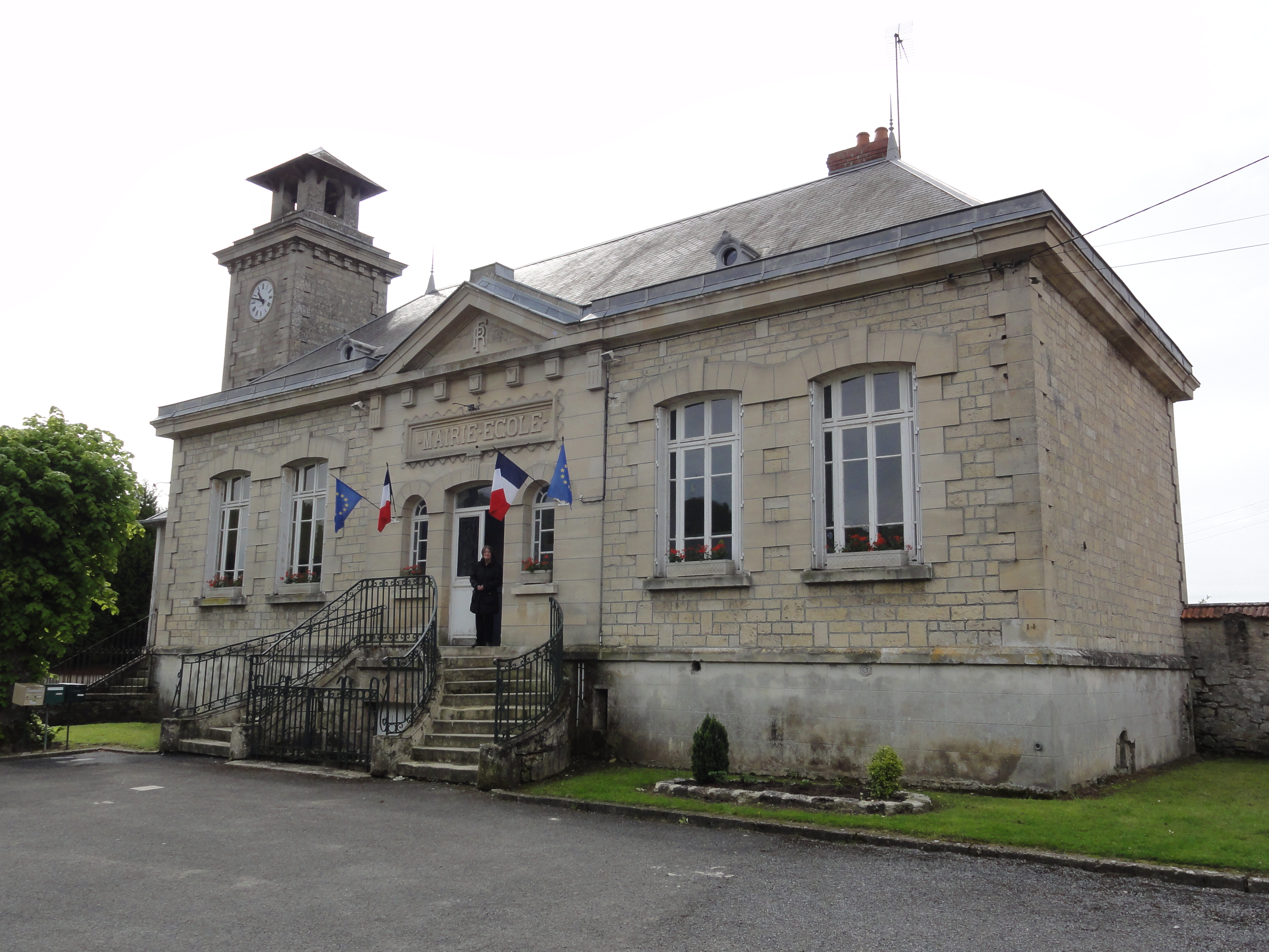 Bièvres (Aisne) mairie-école